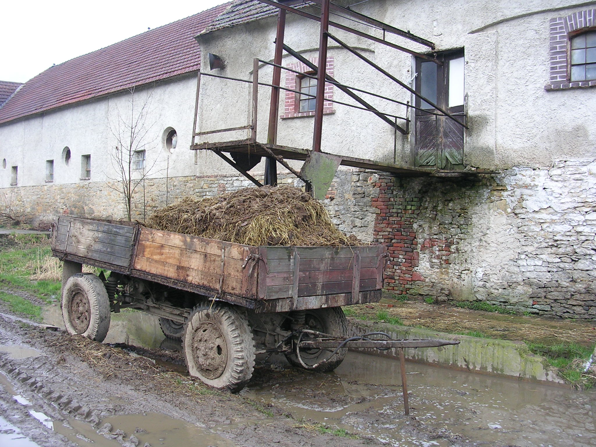 Perná, Orlické Podhůří, the Czech Republic.